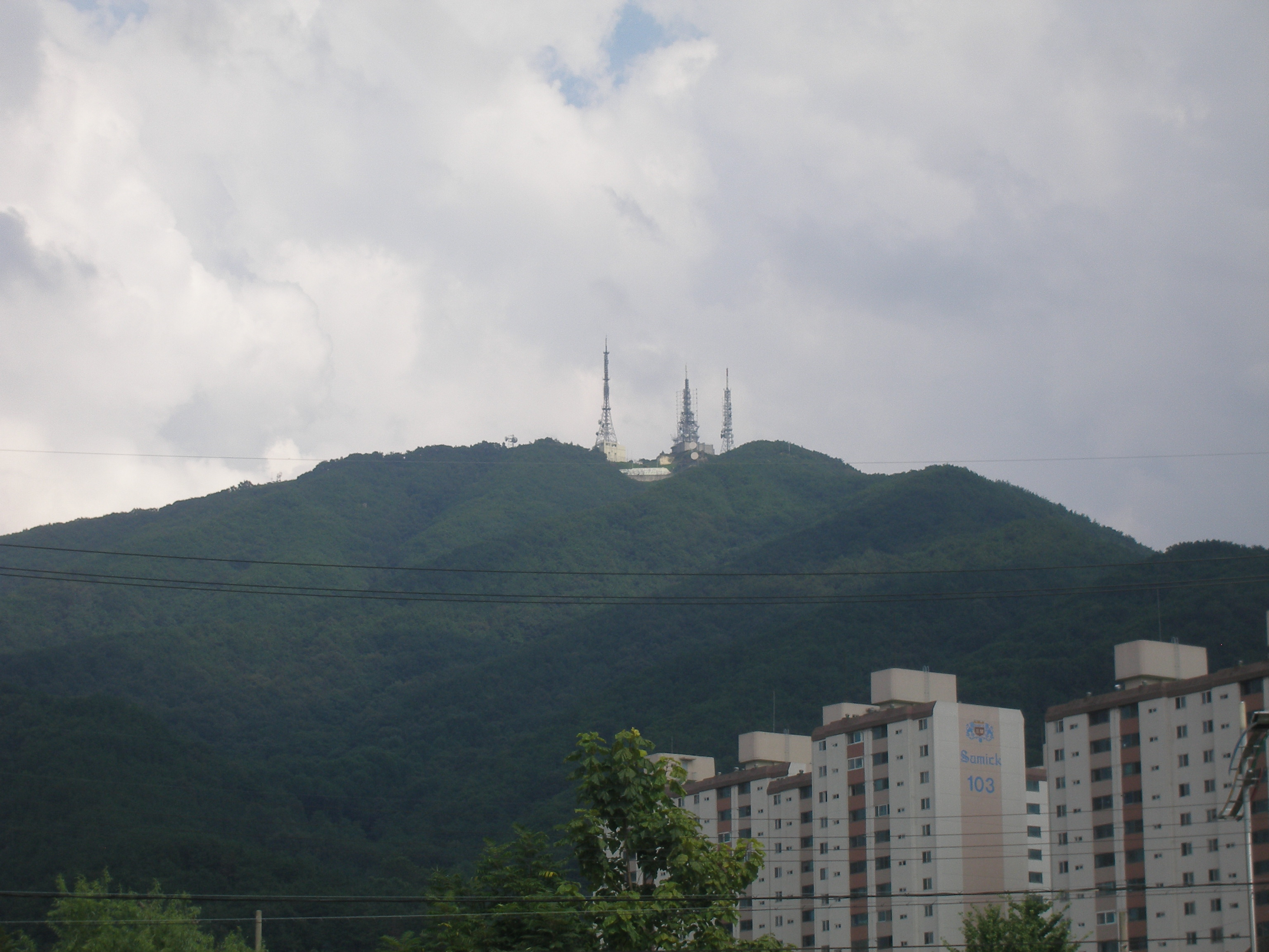 Sikjang-san of Daejeon, Korea, view from Nanwol-dong